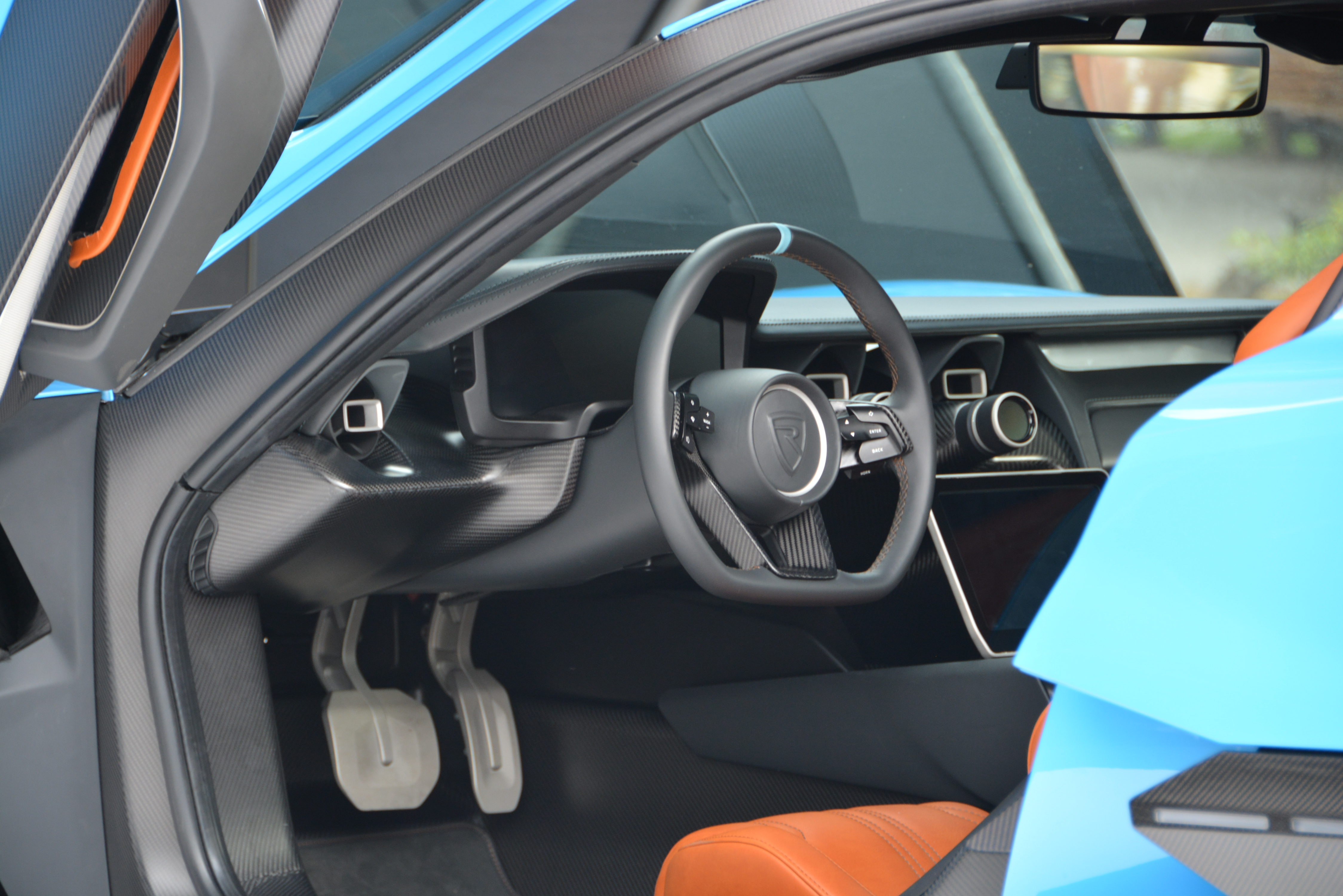 Presentation of Rimac C_Two in Strossmayer Square, Zagreb.